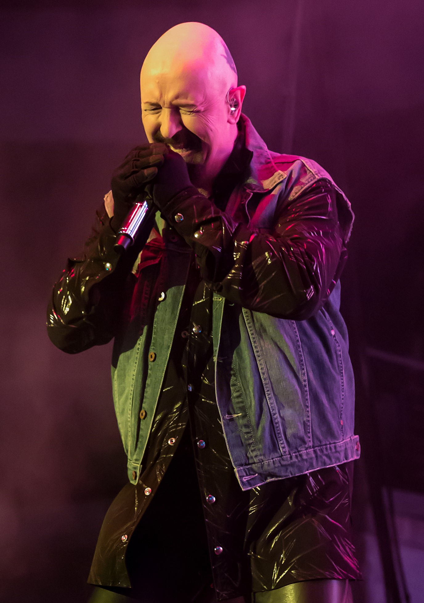 Rob Halford of Judas Priest performing in Texas in May 2015.